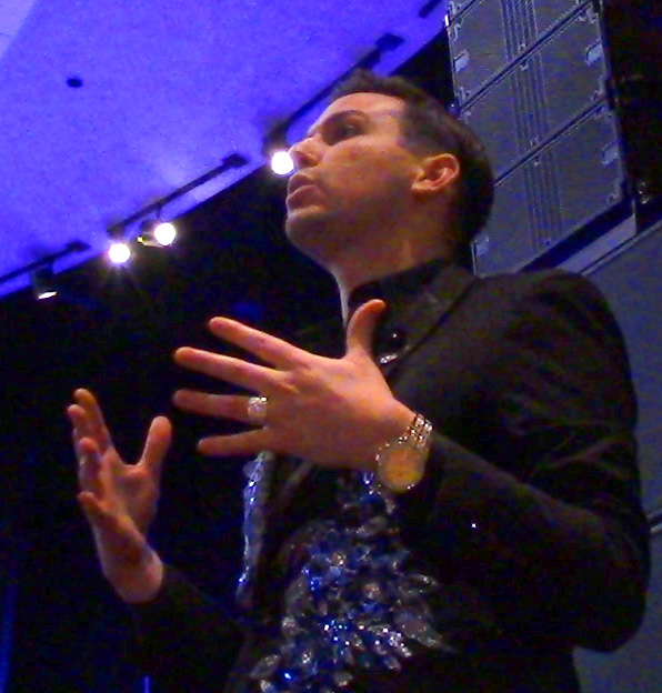 Matt Fraser talking to the audience